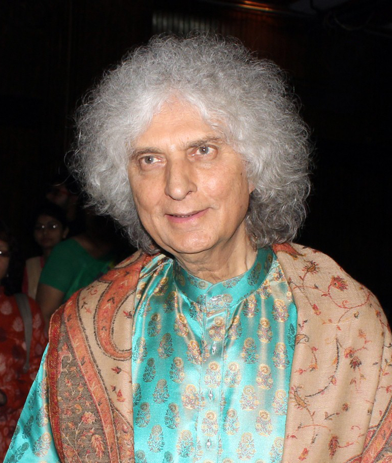 Pandit Shivkumar Sharma after performance and Talk in First Santoor Samaroh (Santoor Concert) at Bharat Bhavan Bhopal